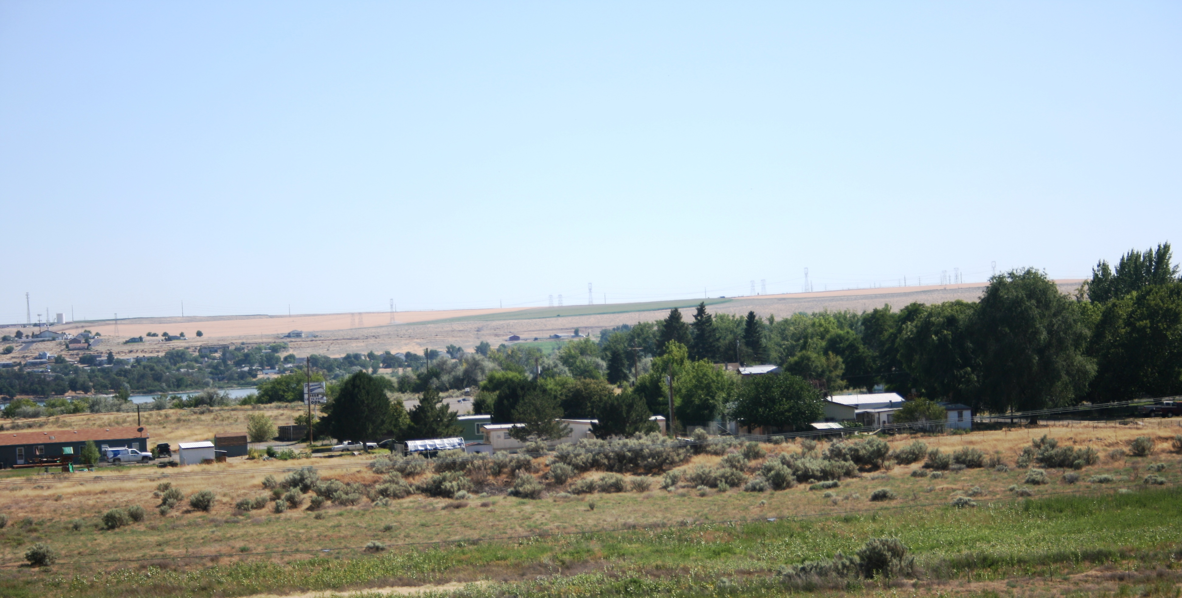 Plymouth, Washington with Columbia River in background in July 2013.